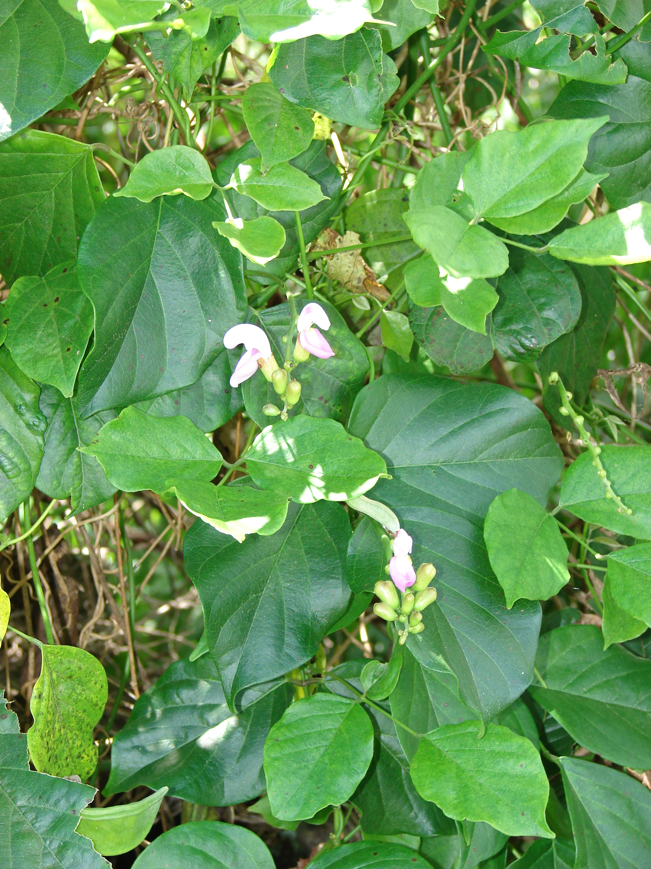 Canavalia cathartica (flowers and leaves). Location: Maui, Hana